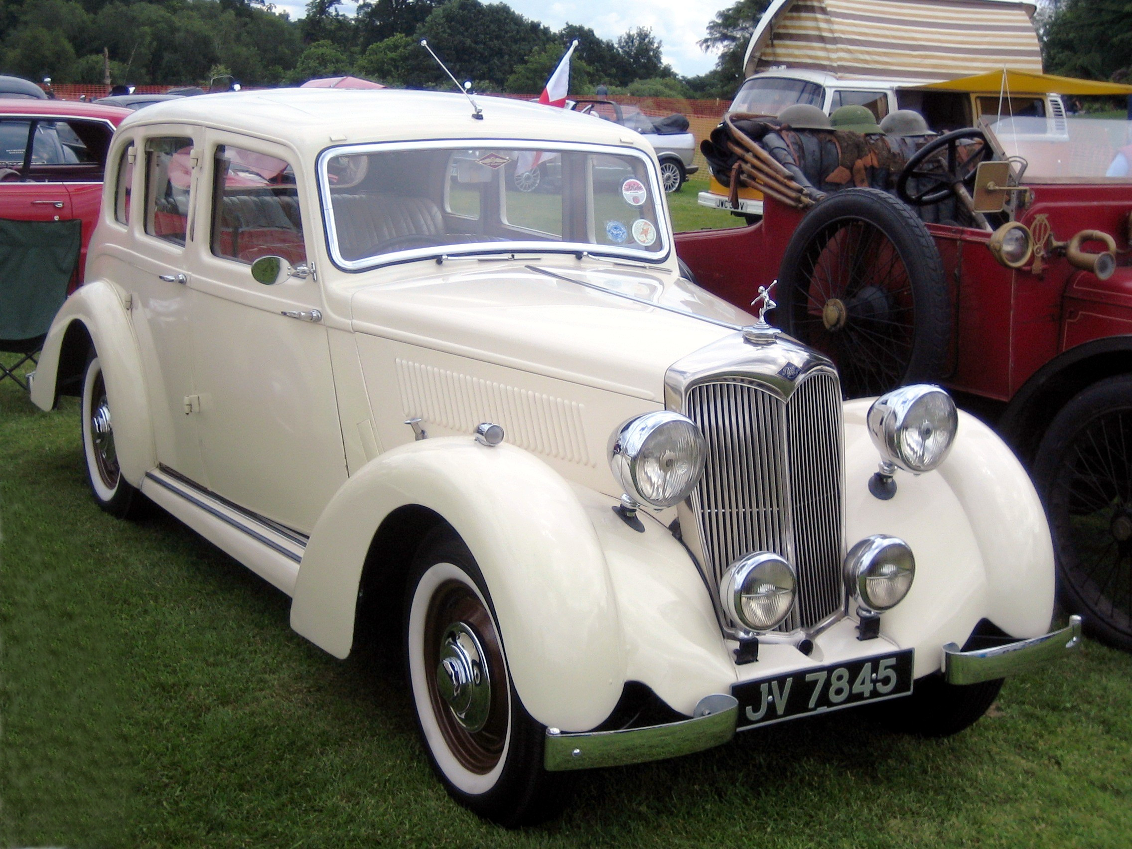 Circa 1939 Riley 12 1½ litre saloon. Directly after the bankruptcy of Riley, the company's assets came into the hands of the Nuffield Corporation which drastically pruned and rationalized the Riley model range, utilizing components from the Morris/Wolseley parts bin. This was one of two Riley models produced following that exercise until World War II put an end to Riley production (though the Kestrel 16 'Big Four' was re-introduced briefly, with a Nuffield gearbox, in respond to protestations from enthusiasts). After the end of the Second World war, Riley values were revived in the 'RM' range. For a few years Rileys became again distinctive vehicles, before BMC condemned the marque to a badge-engineered future. (DVLA) first registered 1 May 1939, 1500 cc — so almost certainly a 12/4 1496 cc